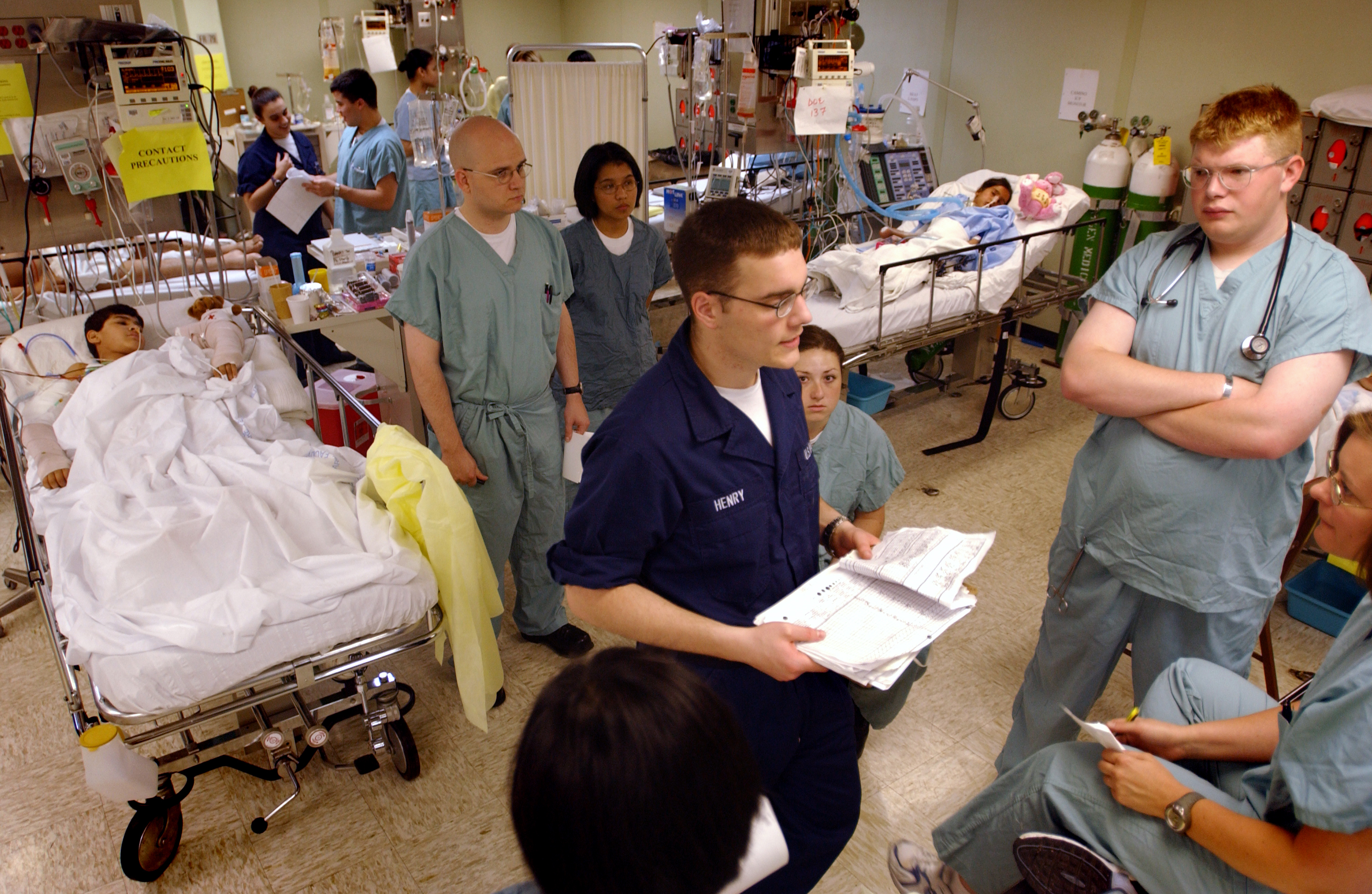 Aboard USNS Comfort (T-AH 20) Apr. 23, 2003 -- Hospital Corpsman Wade Henry gives a passdown to the night shift in the Intensive Care Unit (ICU) aboard USNS Comfort (T-AH 20). Comfort is one of two hospital ships operated by Military Sealift Command and is designed to provide emergency, on-site care for U.S. combatant forces deployed in war or other operations. USNS Mercy (T-AH 19) and Comfort each contain 12 fully-equipped operating rooms, a 1,000 bed hospital facility, digital radiological services, a diagnostic and clinical laboratory, a pharmacy, an optometry lab, a cat scan and two oxygen producing plants. Both hospital ships are converted San Clemente-class super tankers. Comfort set sail for New York City and provided housing, laundry, food, medical and other services to volunteers and rescue personnel for nearly three weeks in the wake of the terrorist attack on the World Trade Center. Comfort was activated again in December 2002 and sailed to the Arabian Gulf to support Operation Iraqi Freedom, the multi-national coalition effort to liberate the Iraqi people, eliminate Iraq’s purported weapons of mass destruction, and end the regime of Saddam Hussein. U.S. Navy photo by Photographer's Mate 1st Class Shane T. McCoy. (RELEASED)